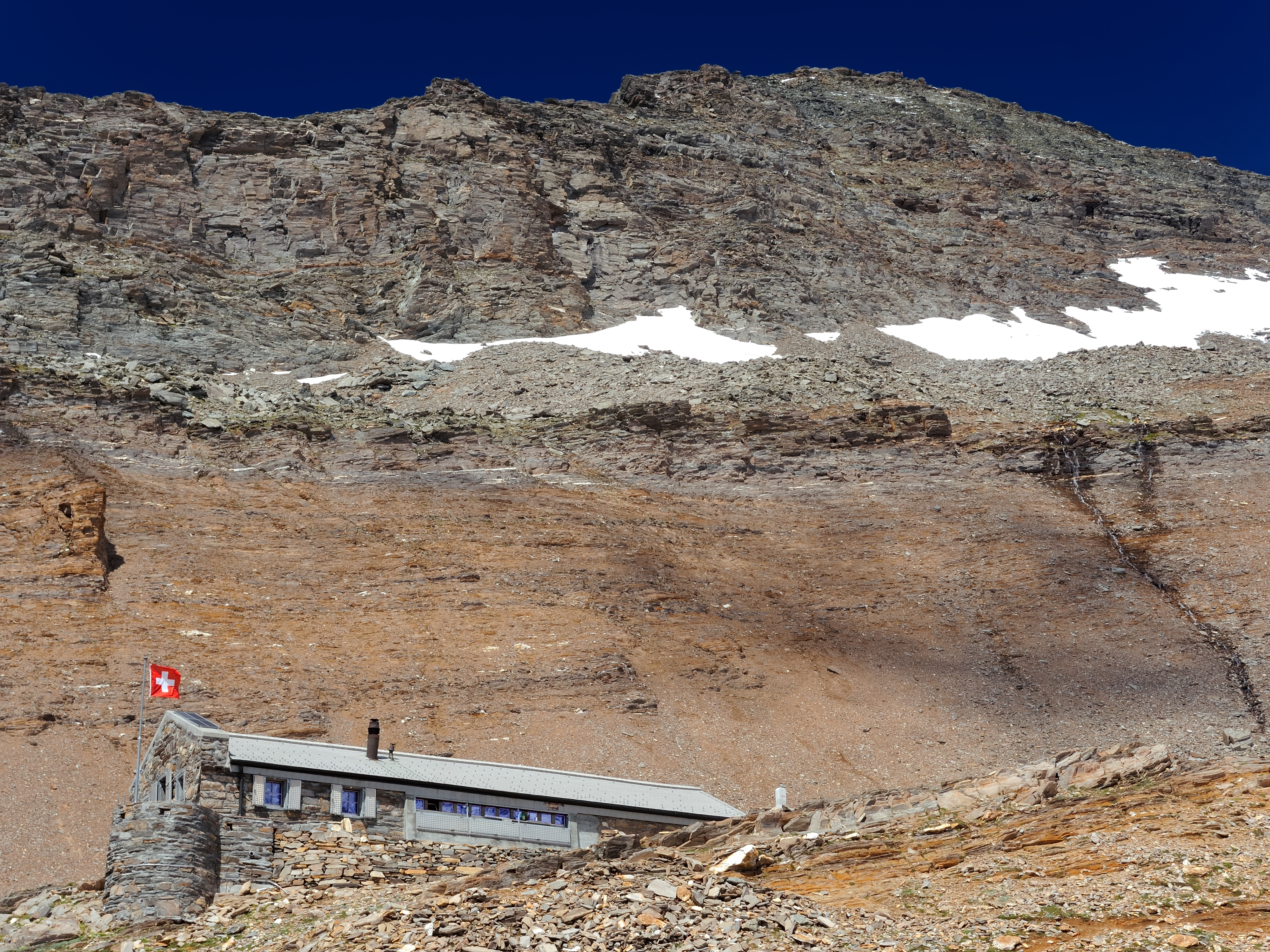 Wasenhorn - Monte Leone Hütte